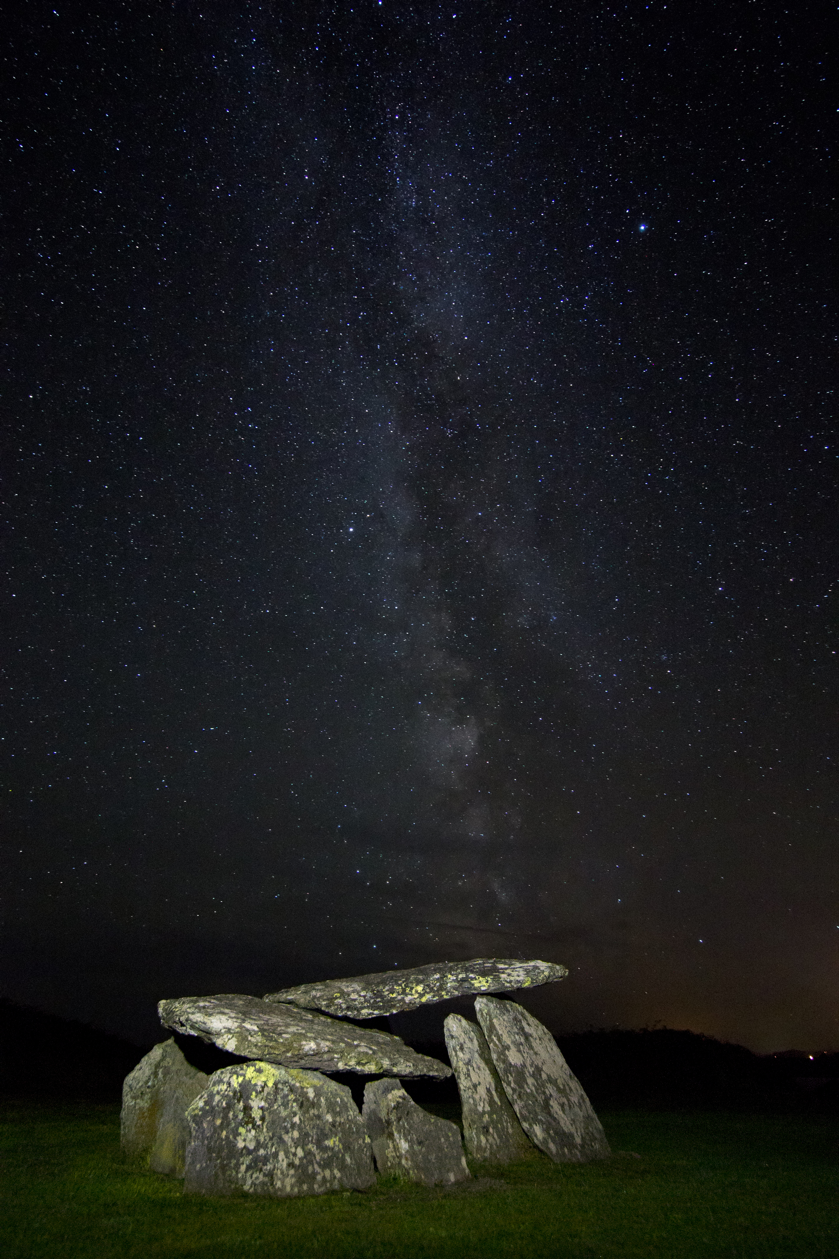 Toormore Altar Wedge Tomb and Milkyway